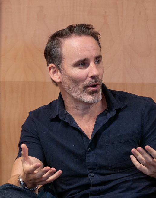 Writer Paul Cleave appearing at WORD Christchurch Festival, August 2018